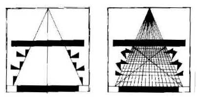 Example of using periaktoi, a triangular theater scenic device. From: Architectura recreationis, by Joseph Furttenbach, en:17th century.